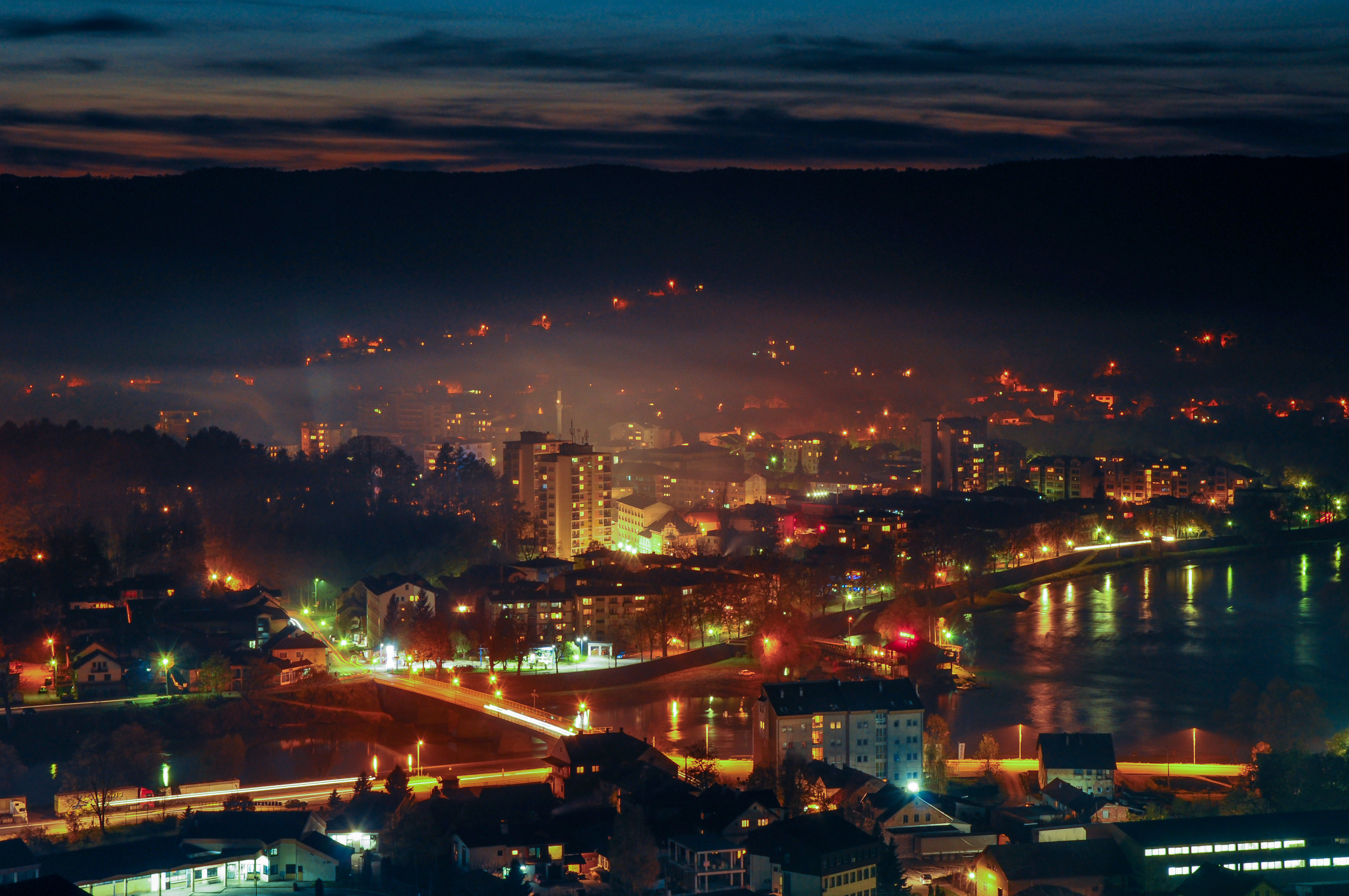 Novi Grad at night.